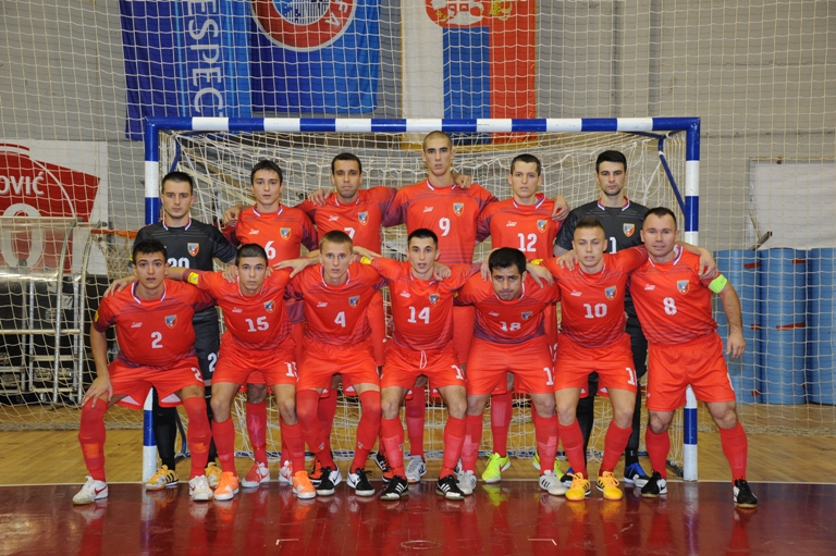 Futasl Club Ekonomac, Kragujevac, Serbia, Season 2014/2015